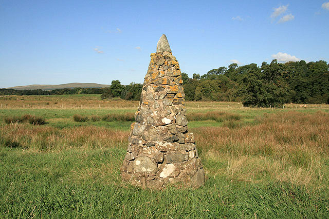 A memorial to John Lapraik. This monument on the north side of the River Ayr is dedicated to John Lapraik (1727-1807) a minor poet who lived on a farm here called Laigh Dalfram. He lost his money with the collapse of the Ayr Bank of Douglas Heron and Company in 1772 and had to leave his farm. There is a plaque on the cairn with the following inscription:- THIS CAIRN WAS ERECTED AD1914 BY THE LAPRIAK BURNS CLUB OF MUIRKIRK TO MARK THE SPOT WHERE STOOD THE HOUSE OF BAULD LAPRAIK THE FRIEND OF ROBERT BURNS THE POET BUT IF THE BEAST AND BRANKS BE SPARD TILL KYE BE GUAN WITHOUT THE HERD AN’ A’ THE VITTEL ON THE YARD AN’ THEEKIT RIGHT I MEAN YOUR INGLE-SIDE TO GUARD AE WINTER NIGHT